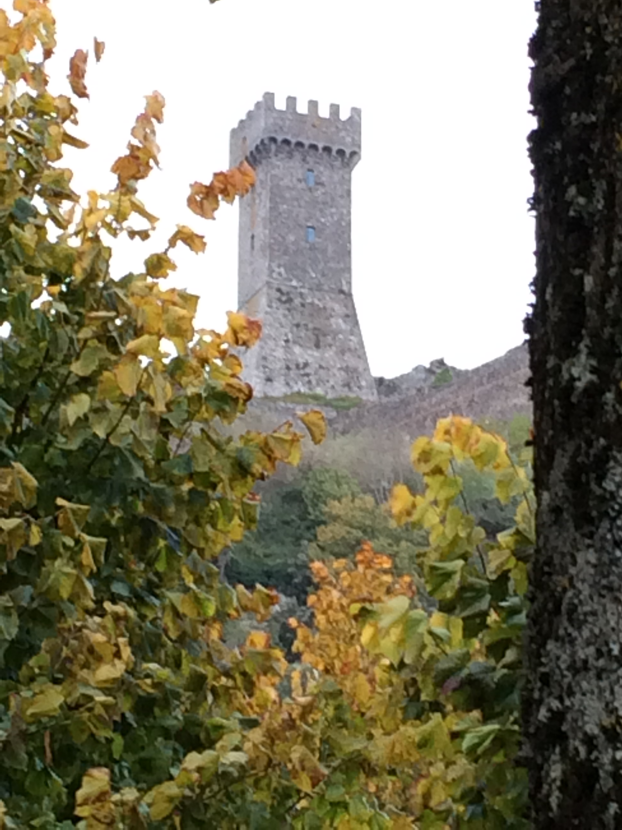 The "Rocca"